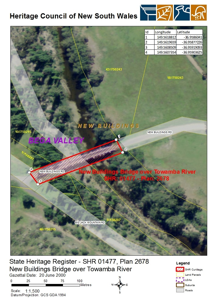 Towamba River bridge, New Buildings: SHR Plan No 2678